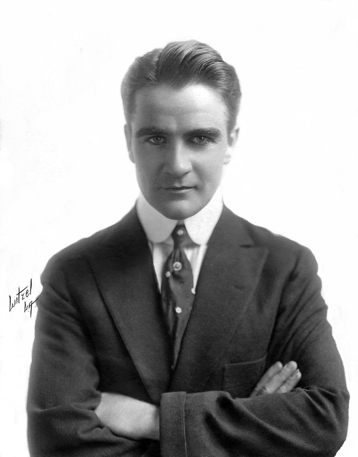 Autographed portrait of Irish actor William Desmond (1878-1949) by American photographer Albert Witzel (1879-1929).